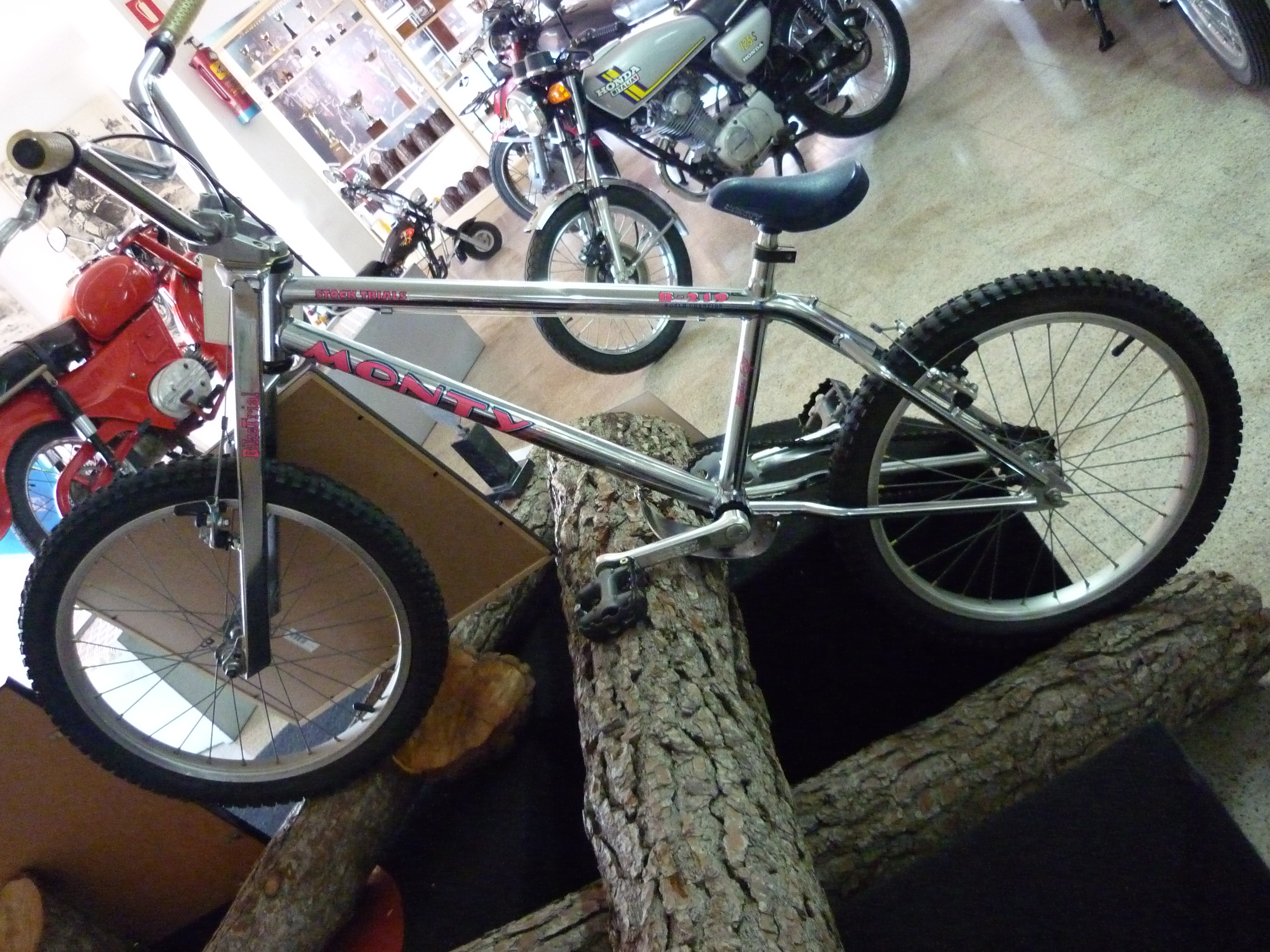 Monty B-219 (around 1989) Biketrial bike wich was piloted by World Champion Ot Pi i Isern.Isern Motorcycle Museum, Mollet del Vallès (Catalonia).